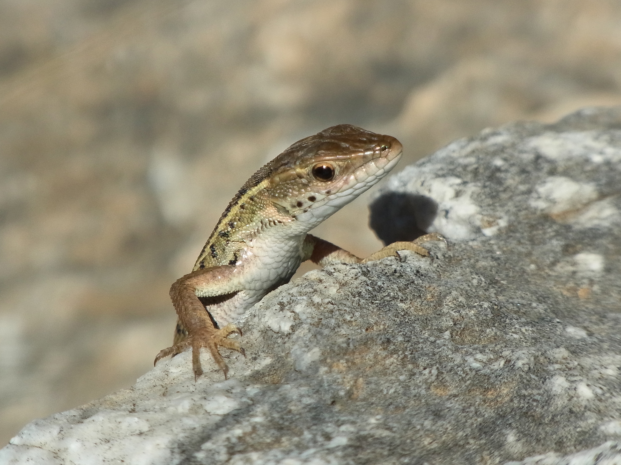 Snake-eyed Lizard (Ophisops elegans), bei Skala Prinos, Thasos / Greece